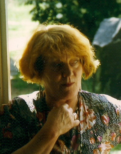 monika müller-klug